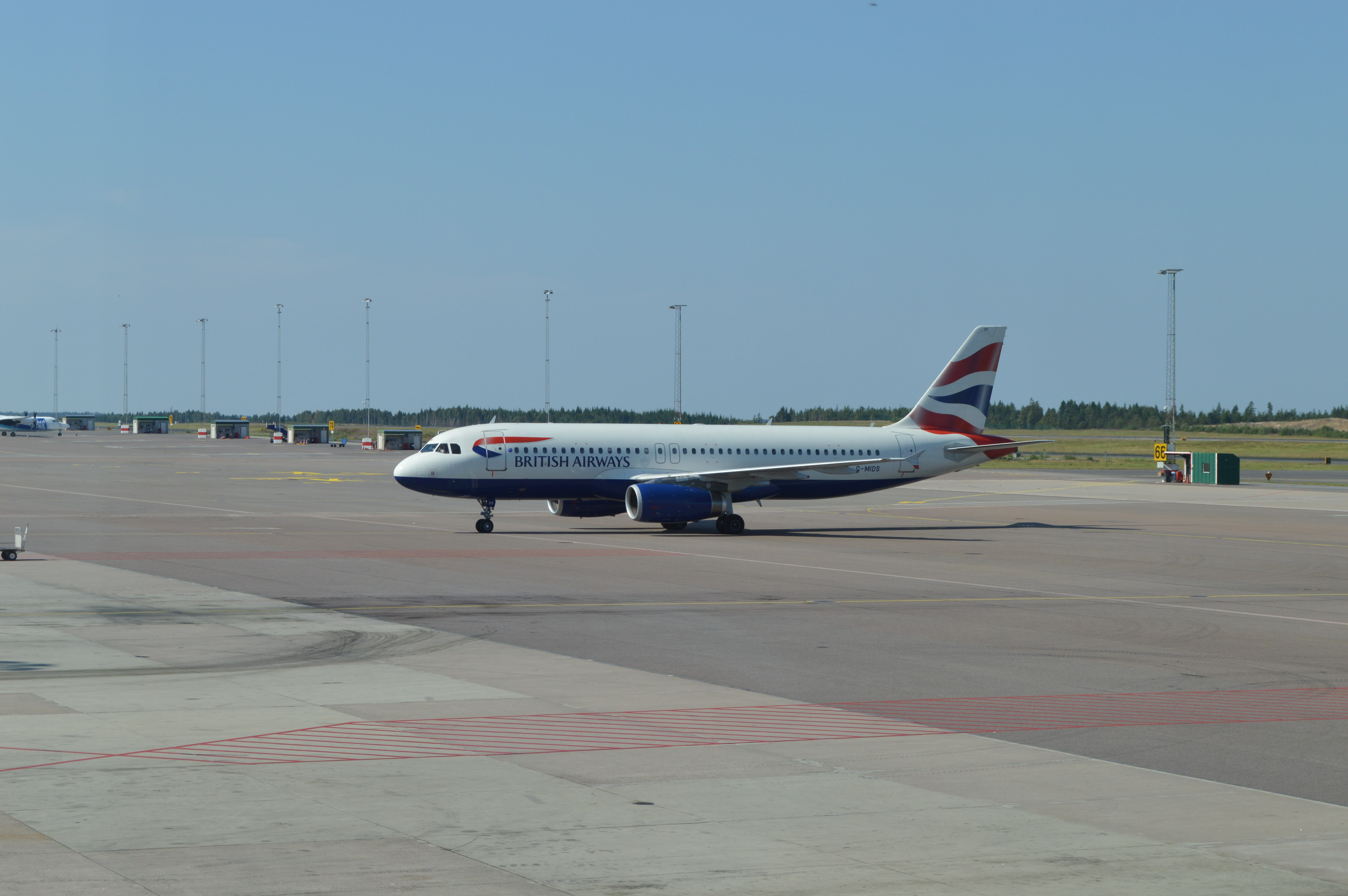 British Airways A320 (G-MIDS) taxiing in Gothenburg Landvetter Airport